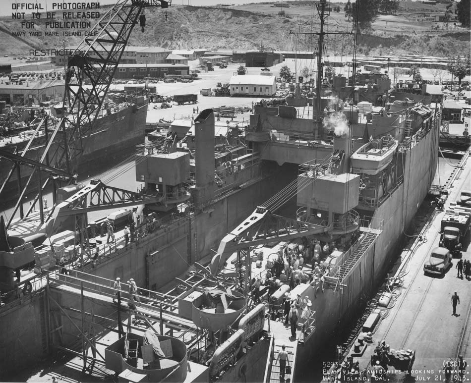 USS Ashland (LSD-1) moored pierside at Mare Island Navy Yard. Overhead view of Ashland's well deck, 21 July 1943. US Navy photo San Francisco NARA, Mare Island Navy Yard Ship Files